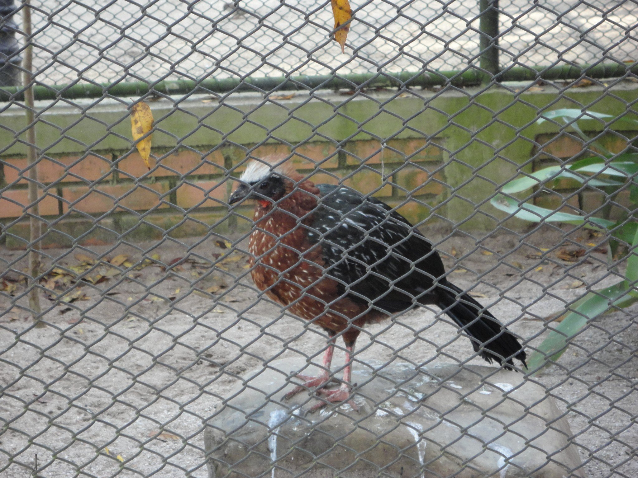 White-crested Guan at Public Promenade, Curitiba, PR, Brazil, Jun. 19, 2011.